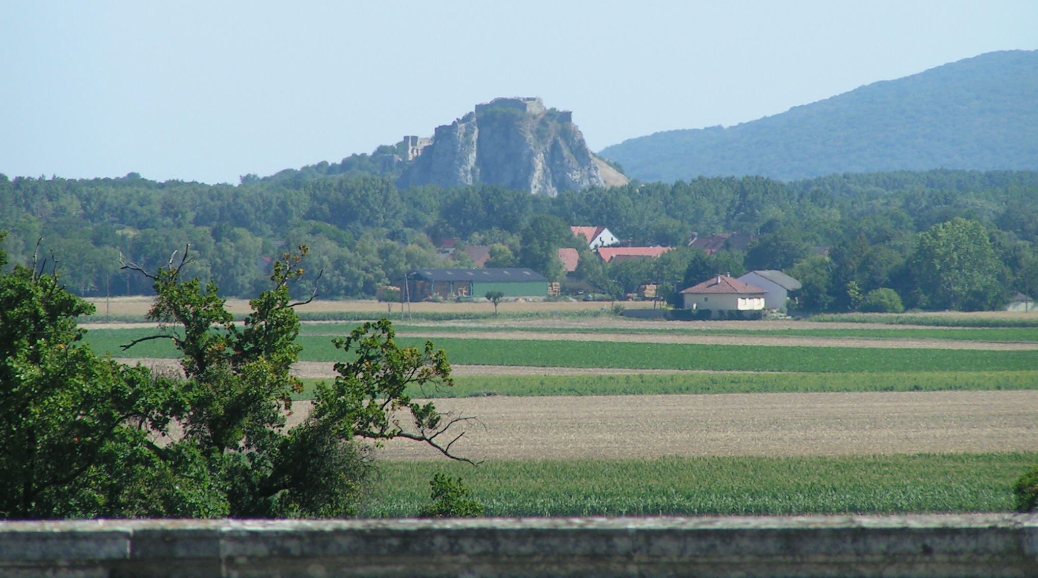 Look at Devin Castle (Slovakia) from Schloss Hof (Lower Austria)